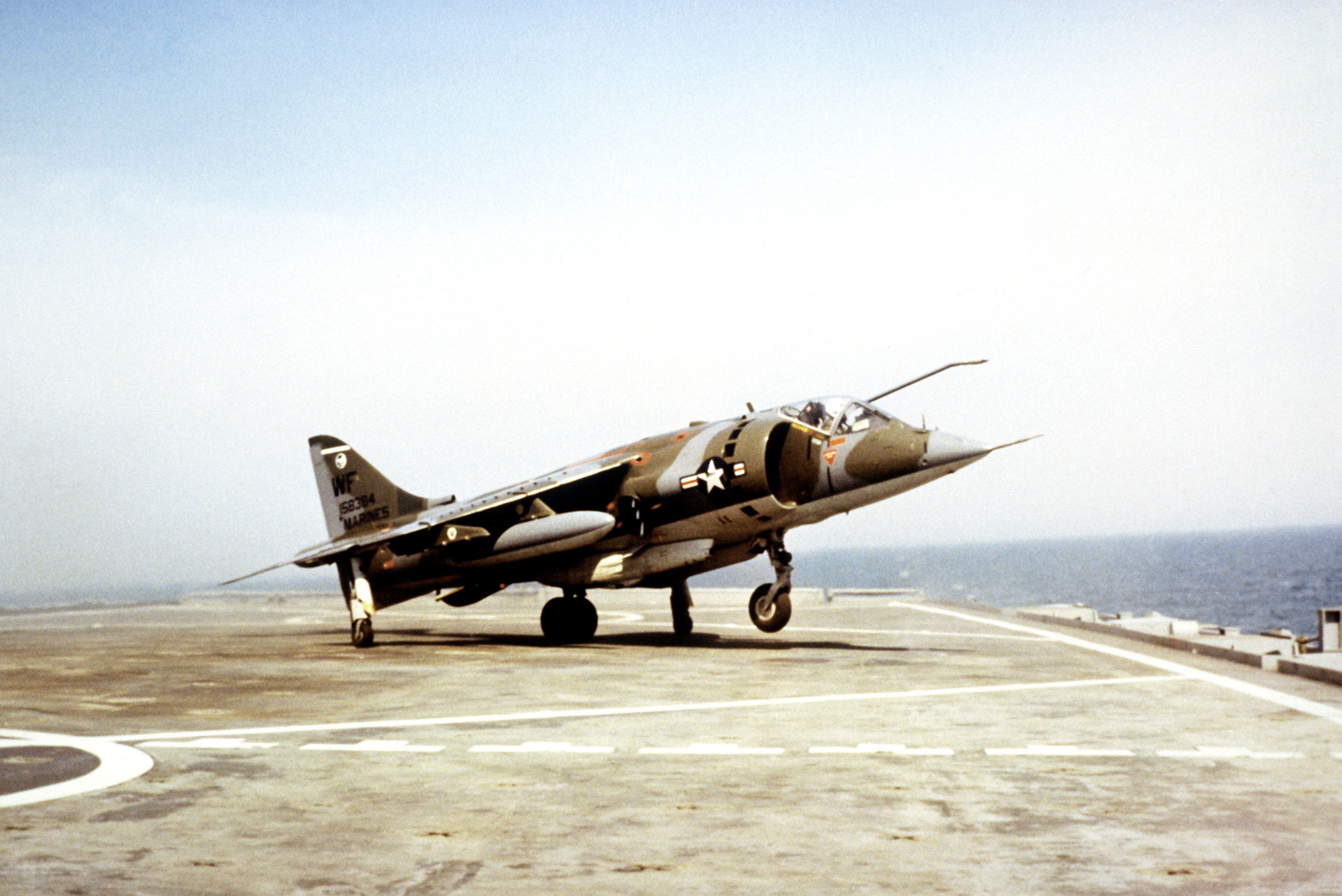 A U.S. Marine Corps Hawker Siddeley AV-8C Harrier (BuNo 158384) from Marine Attack Squadron VMA-513 Flying Nightmares takes off from an Austin-class amphibious transport dock ship in 1982. Note: the ship is not USS Nassau (LHA-4), as stated in the official description.